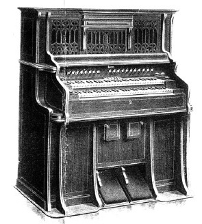 Mustel Orgue-Célesta, after 1910